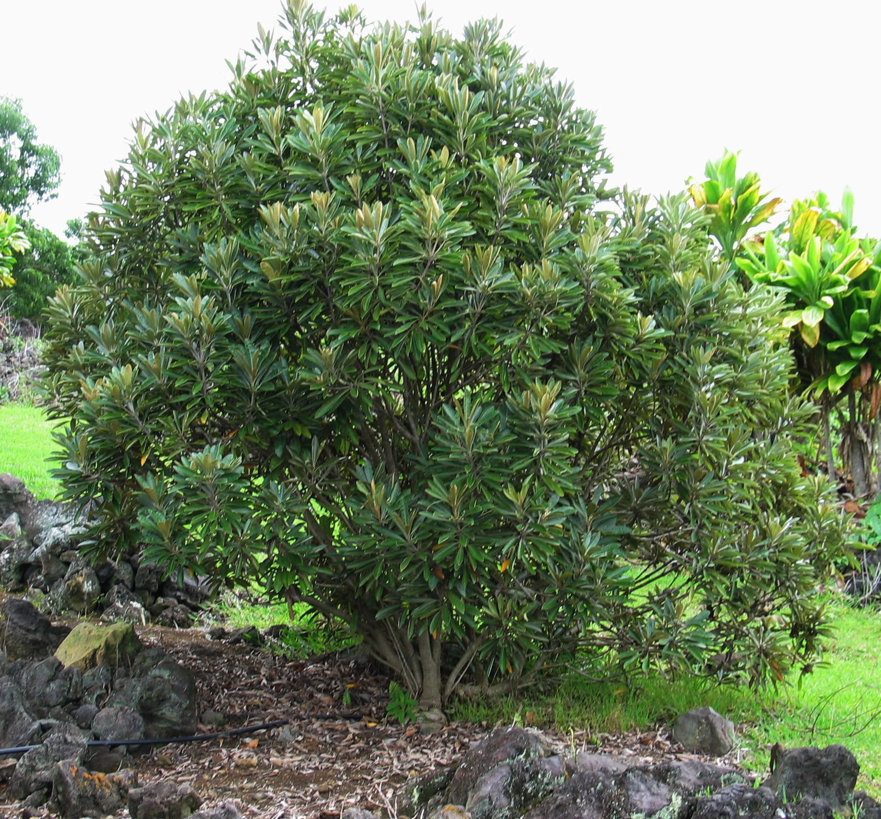 Hōʻawa or Kona cheesewood Pittosporaceae Endemic to the Hawaiian Islands Hawaiʻi Island (Cultivated) The early Hawaiians used the wood to make gunwales for canoes. The outer layer of the fruit valves were used medicinally. They were pounded and used externally on sores. NPH00001